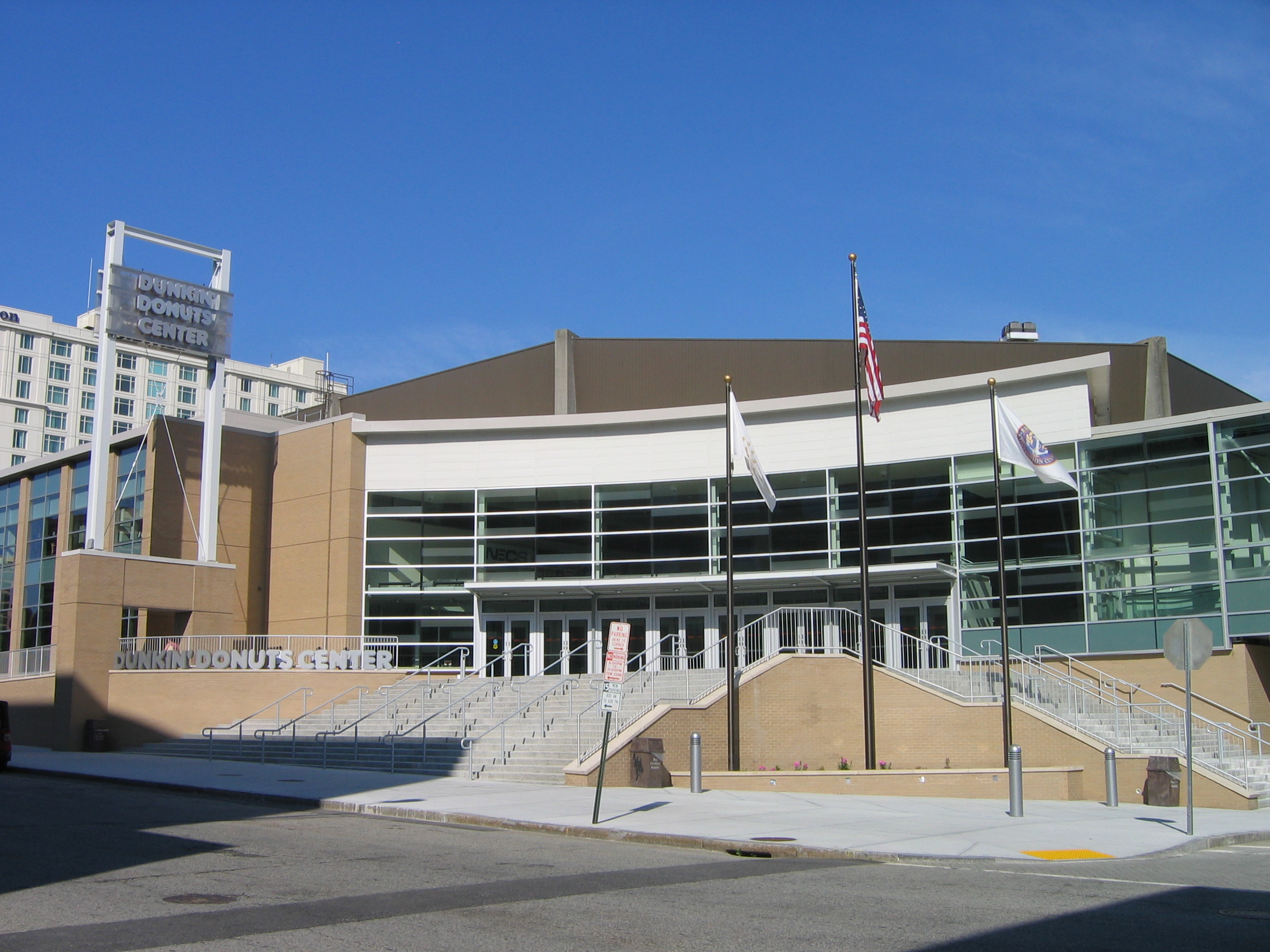 Football & Basketball Facilities Providence Downtown Arena